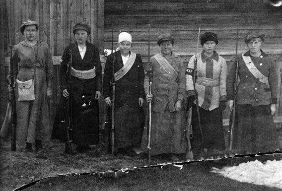 1918 Finnish Civil War: Female Red Guard fighters by the town hall in Vihti, 12 April 1918. The squad was composed of the maids of the Vihti manor houses, commander Maiju Johansson pictured right.